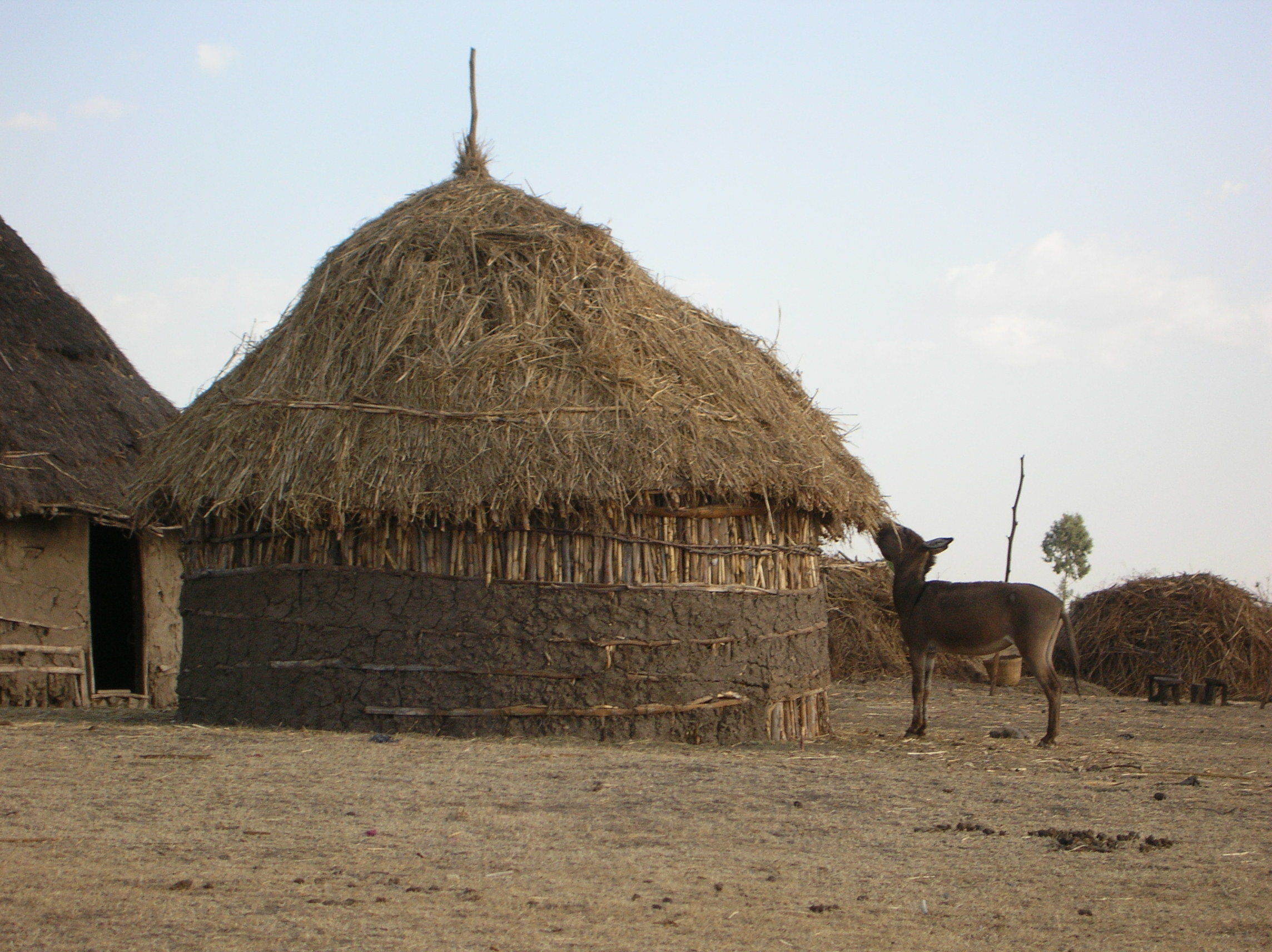 Torchis, Ethiopia